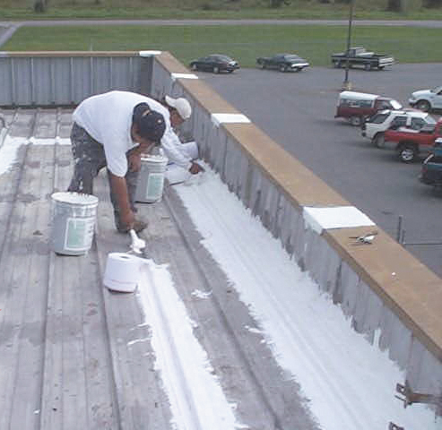 This image shows a roofing contractor during the process of prepping metal roof seams in preparation for the application of an American WeatherStar elastomeric roof coating.